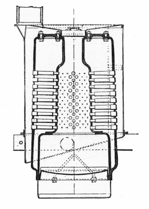 Fig. 228 Steam Autocar Boiler Robertson boiler